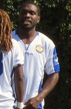 Richard West with Brampton City United in a match against London City on August 14, 2011